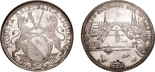 Switzerland, Zürich AR Taler (-gm, 12h). Dated 1727. MONETA REIPUBLICÆ TIGURINÆ, oval city coat-of-arms within ornate frame supported by lions rampant, one holding palm, the other sword DOMINI CONSERVA NOS IN PACE, aerial view of city along the Limmat River with boats; date in ornate cartouche. Cf. Coraggioni Tafel V, 7 (date); Davenport 1784; KM 144.